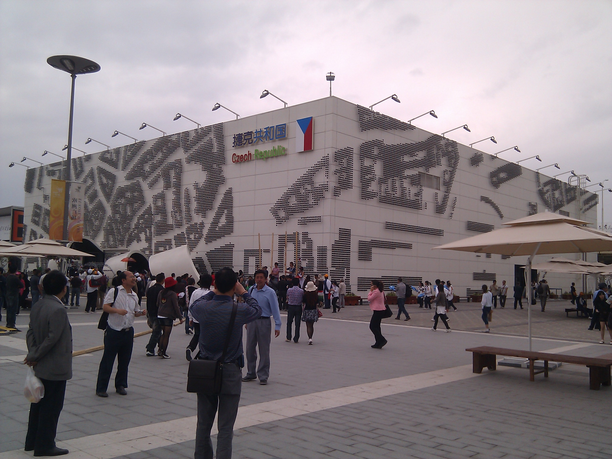 Czech Pavilion of Expo 2010